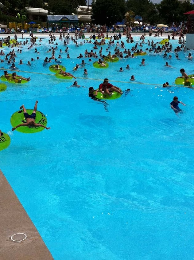 A visitor picture of the wave pool at Water World.